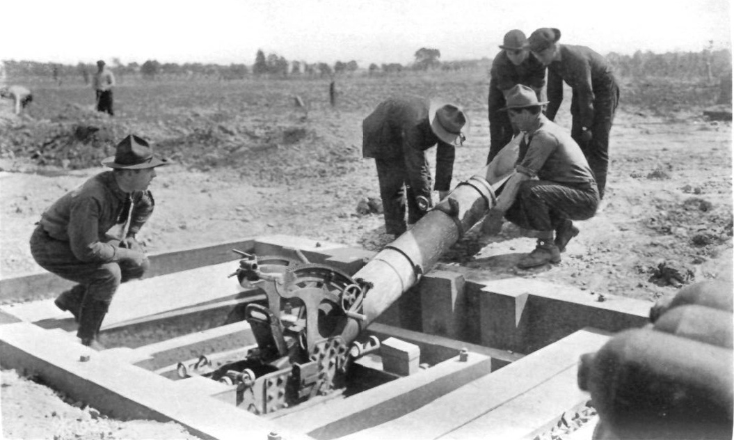 US gunners, apparently in training, loading the 240-mm Trench Mortar.